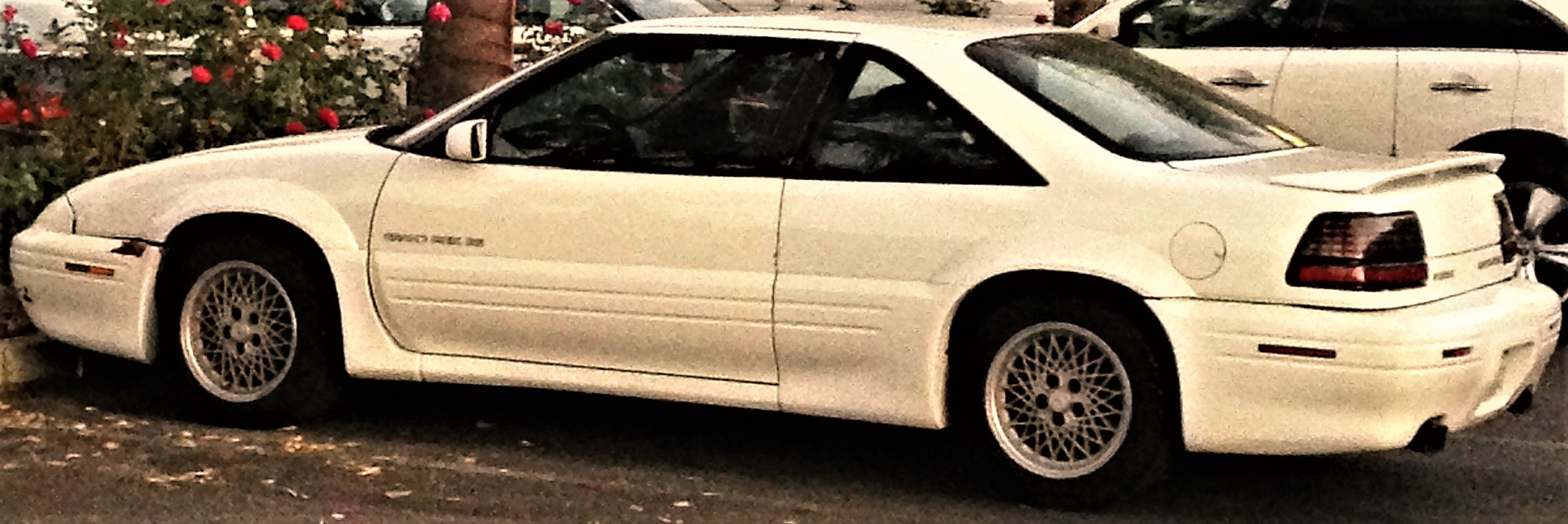 Pontiac Grand Prix (W-body)